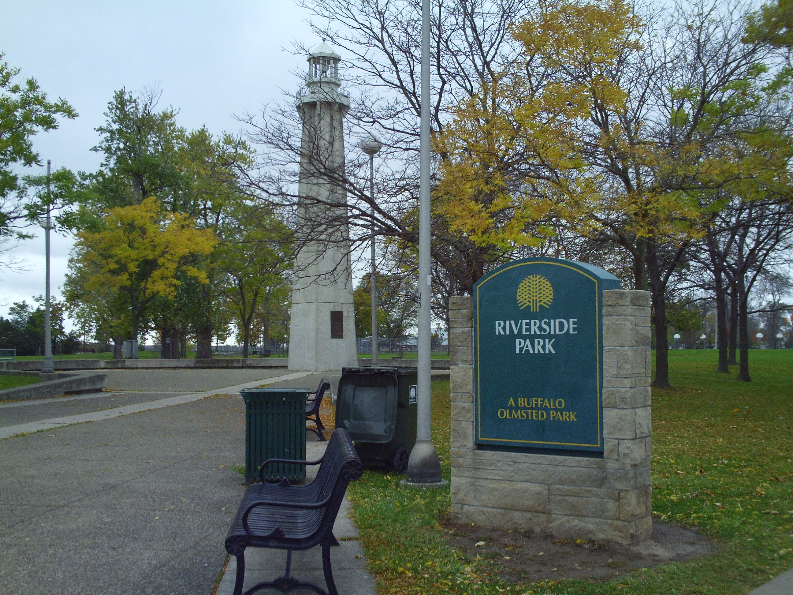 Picture of entrance to Riverside Park, showing the Lighthouse and park sign